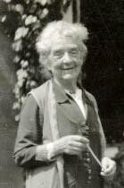 Mary Sargant Florence in the 1920s